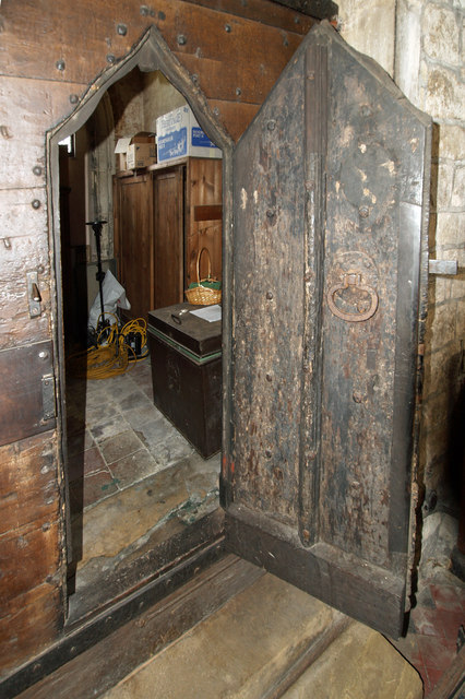 All Saints' parish church, Goxhill, Lincolnshire: vestry door. Note the parish chest in the vestry.